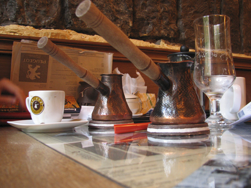 Long-handled coffee servers in an Armenian cafe, with cups and saucers.